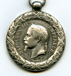 France military medal